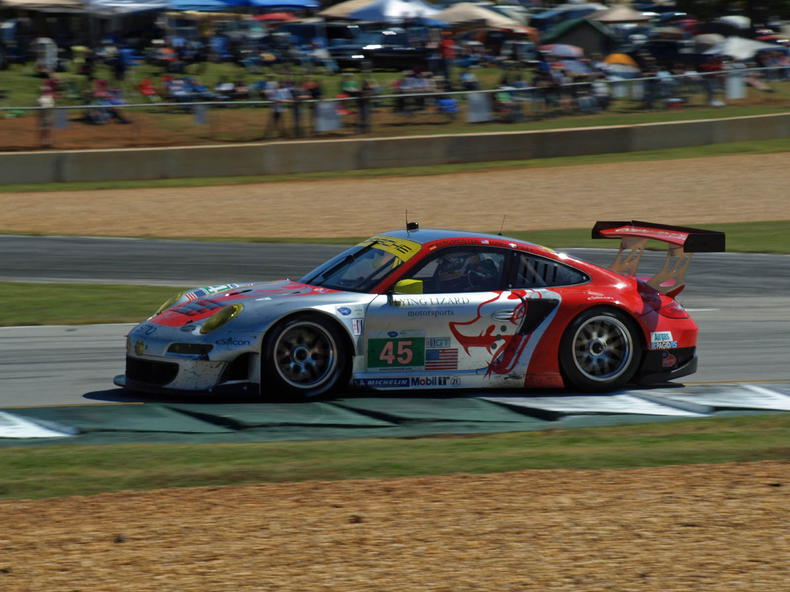 Patrick Pilet in the Flying Lizard Motorsports Porsche 997 GT3-RSR at the 2012 Petit Le Mans